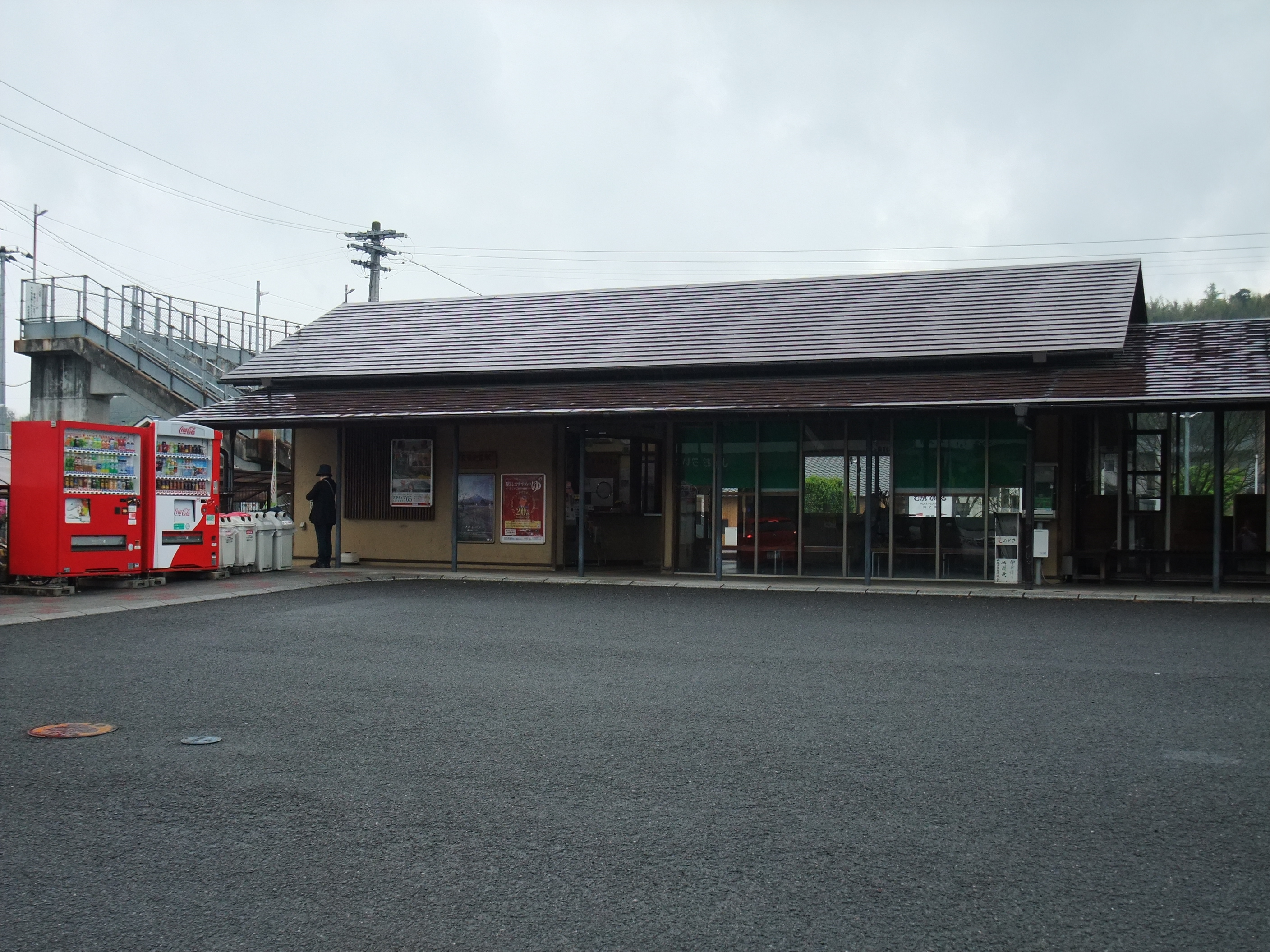 Mukainoharu Station in Oita Prefecture, Japan